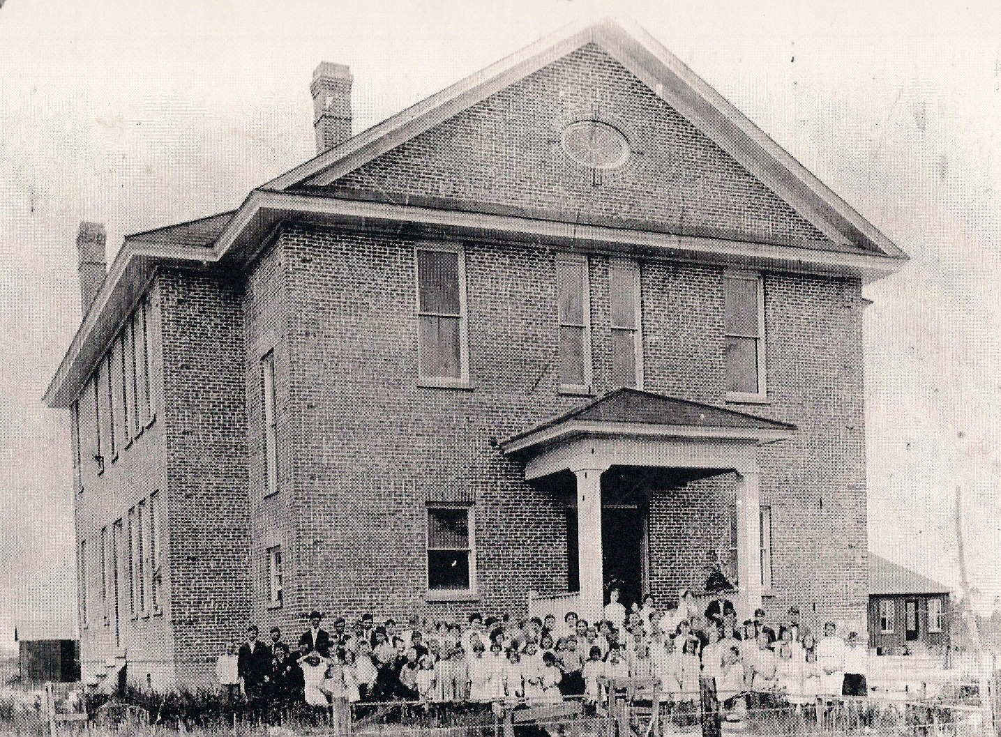 Picture of the first school in Andrews shortly after it opened.